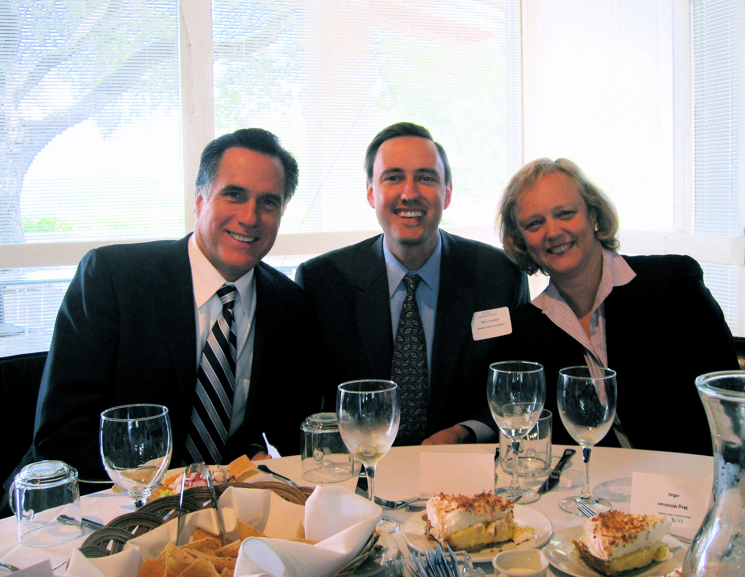 Three ex-Bainies at lunch today. Governor Romney is running for President. Update: and now Meg Whitman is running for Governor of California.